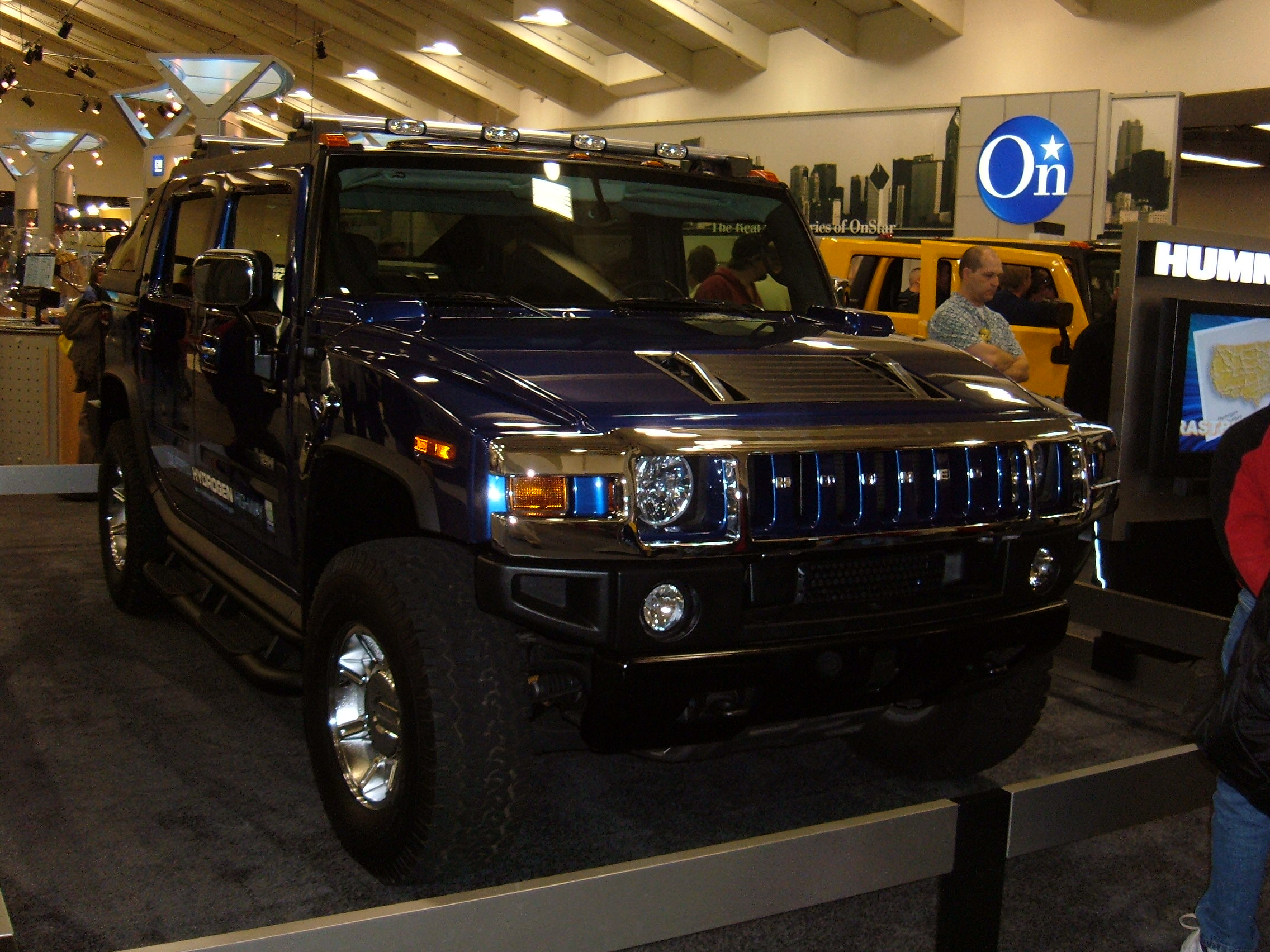 A 2005 Hummer H2H at the 2004 San Francisco International Auto Show.